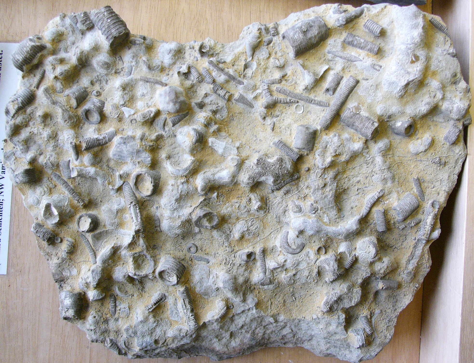 Crinod fragments and rugose corals - Hamra sediments, Gotland